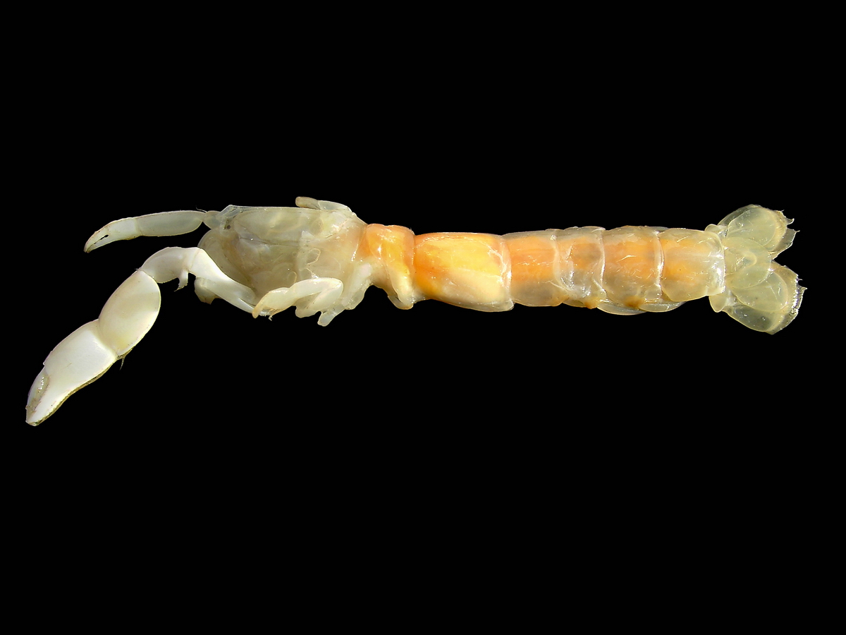 Sand ghost shrimp from the Belgian coastal waters.